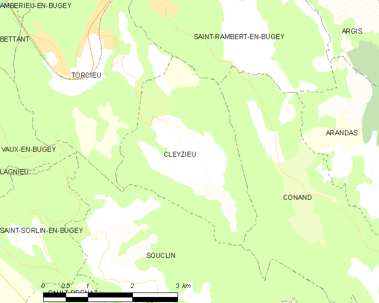 Map of French commune: Cleyzieu Map commune FR insee code 01107.png